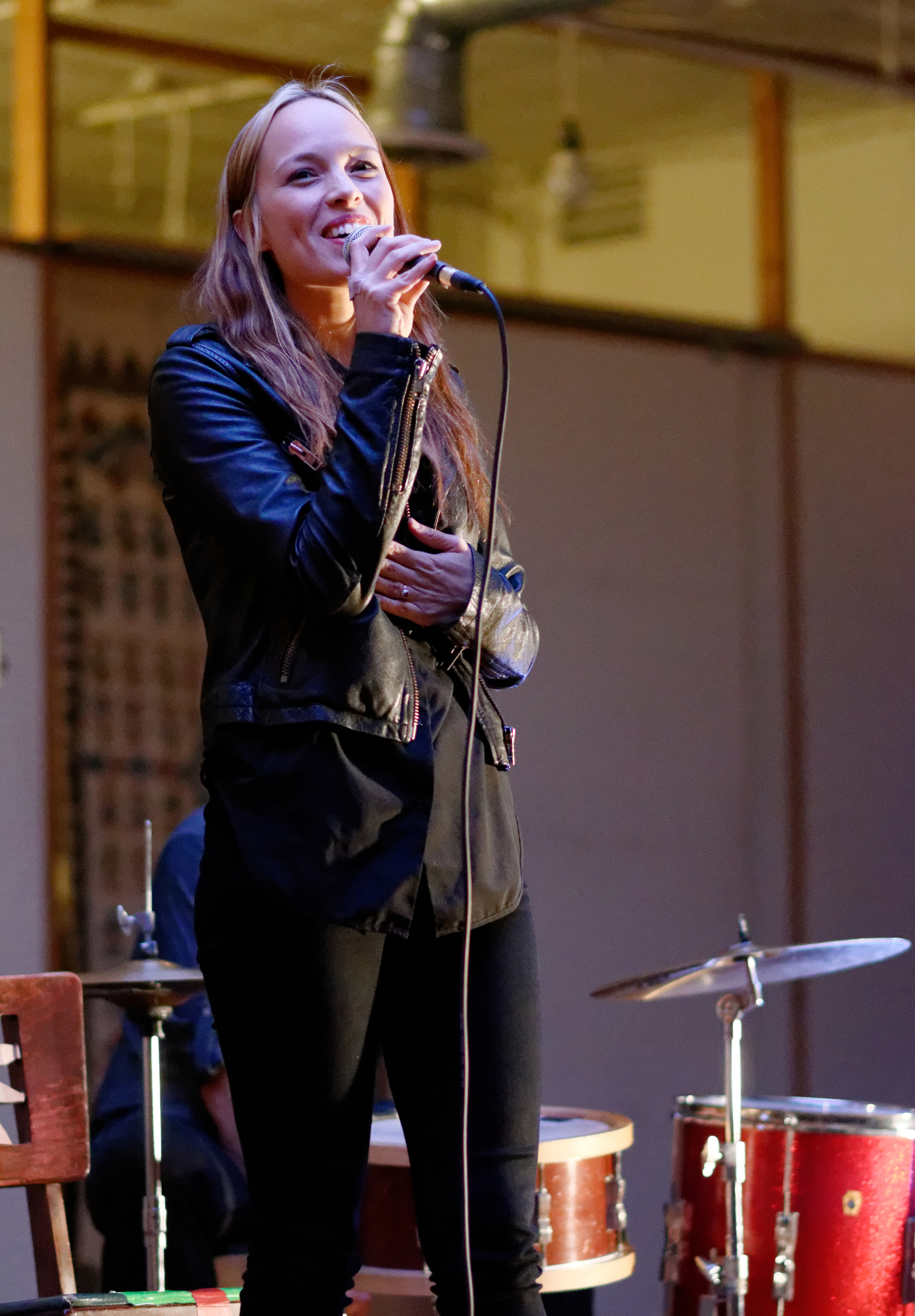 Kate Earl performing at Pieter Performance Space in Los Angeles CA on November 29th, 2013